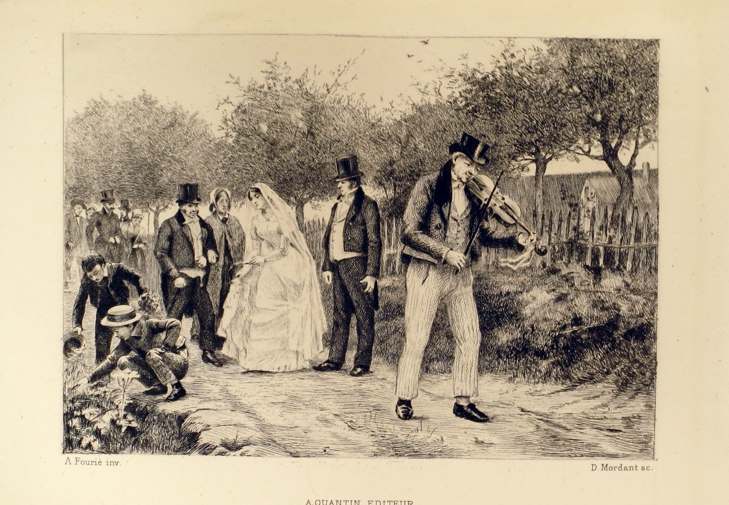 Illustration of Madame Bovary by Gustave Flaubert (1821-1880)